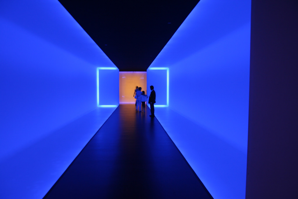 James Turrell's The Light Inside